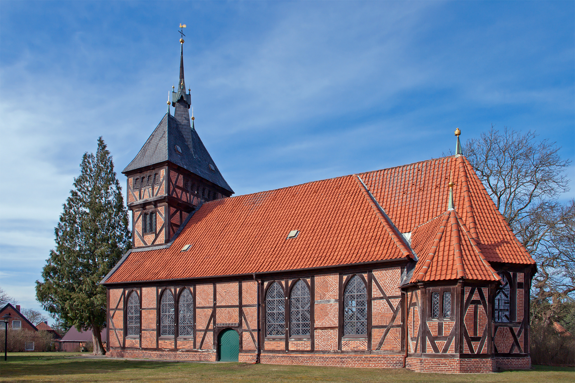 Timber framed church of Tripkau (district Lüneburg, northern Germany).